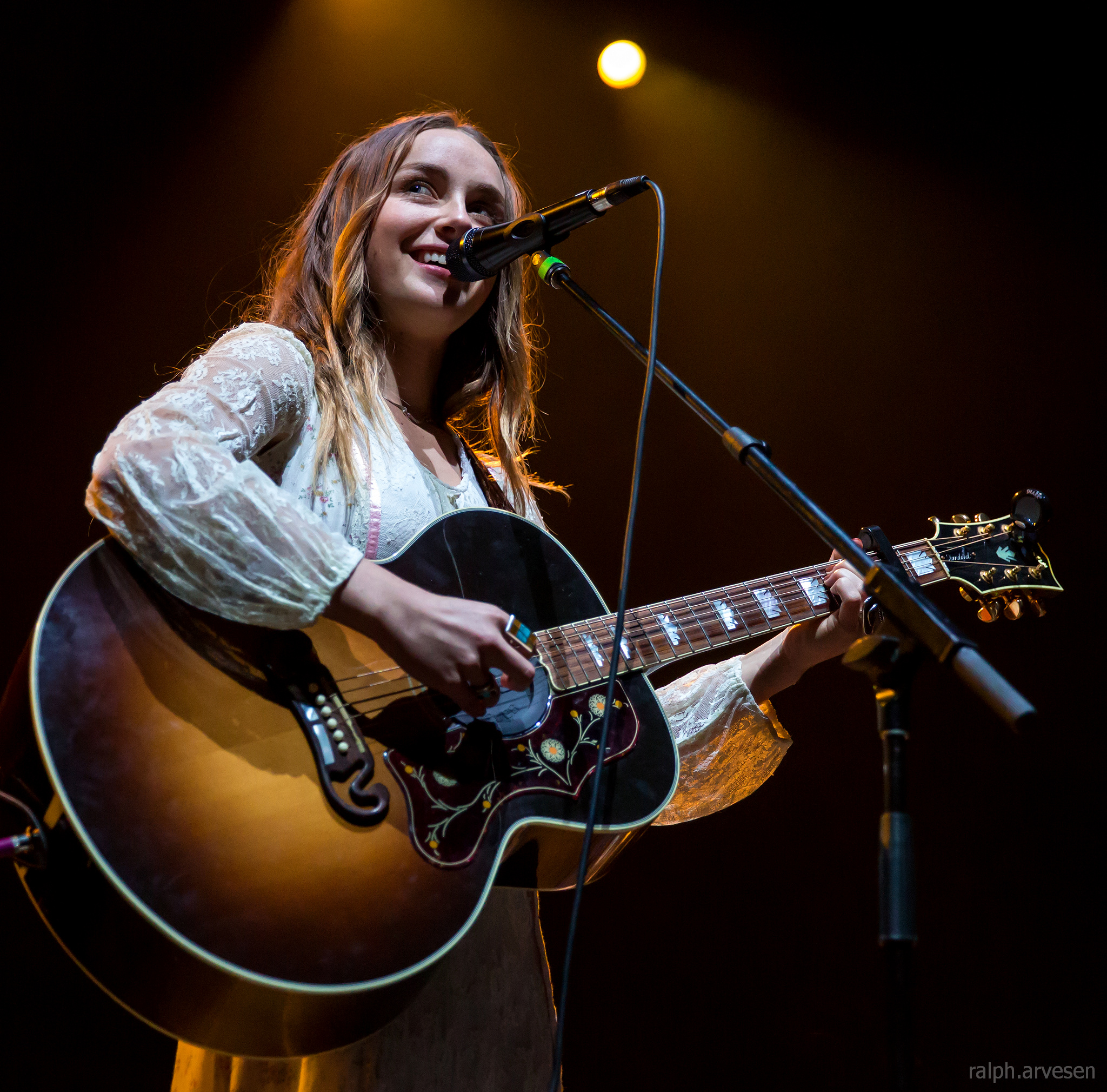 Zella Day performing at ACL Live in Austin, Texas on December 17, 2015.